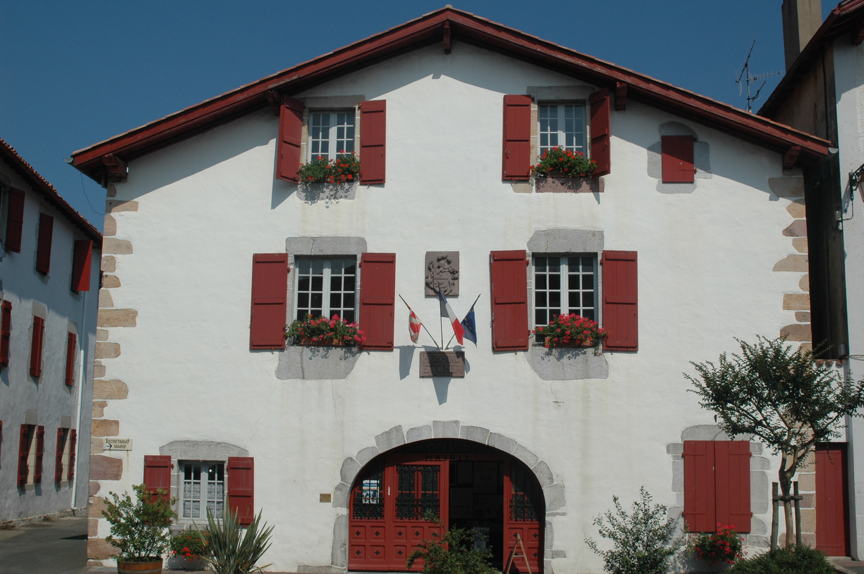 City hall of Ainhoa (France).